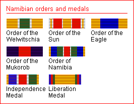 Chart of the ribbons of Namibian orders and medals, created to illustrate the article on 'Orders, decorations and medals of Namibia'.